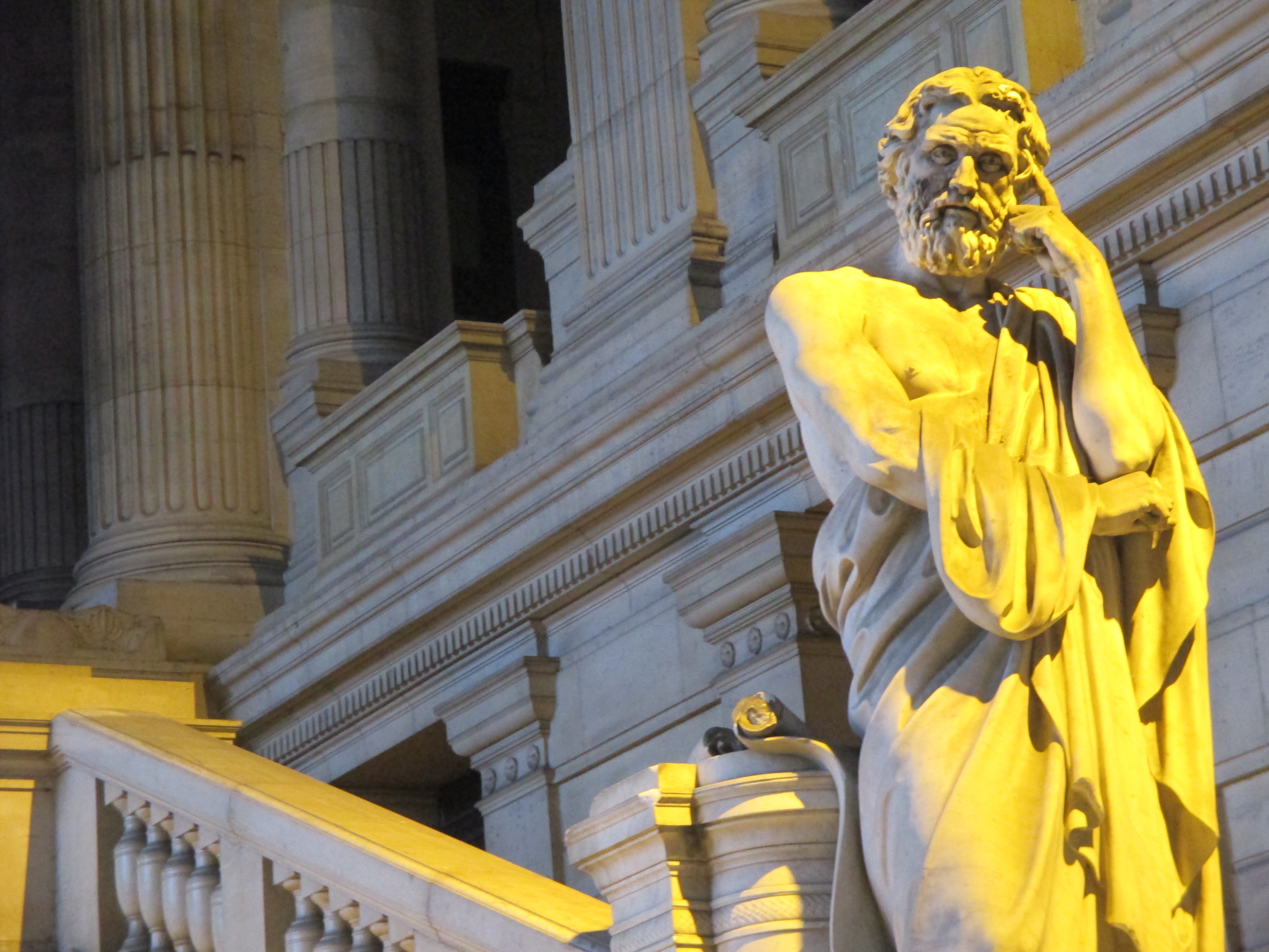 Statue of Lycurgus, Lawgiver of Sparta, at the Law Courts of Brussels, Belgium on December 30, 2013. Taken by Matt Popovich and released under a CC-BY-3.0 license.